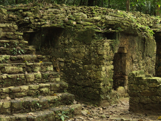 The crumbling ruins in the thick jungle.